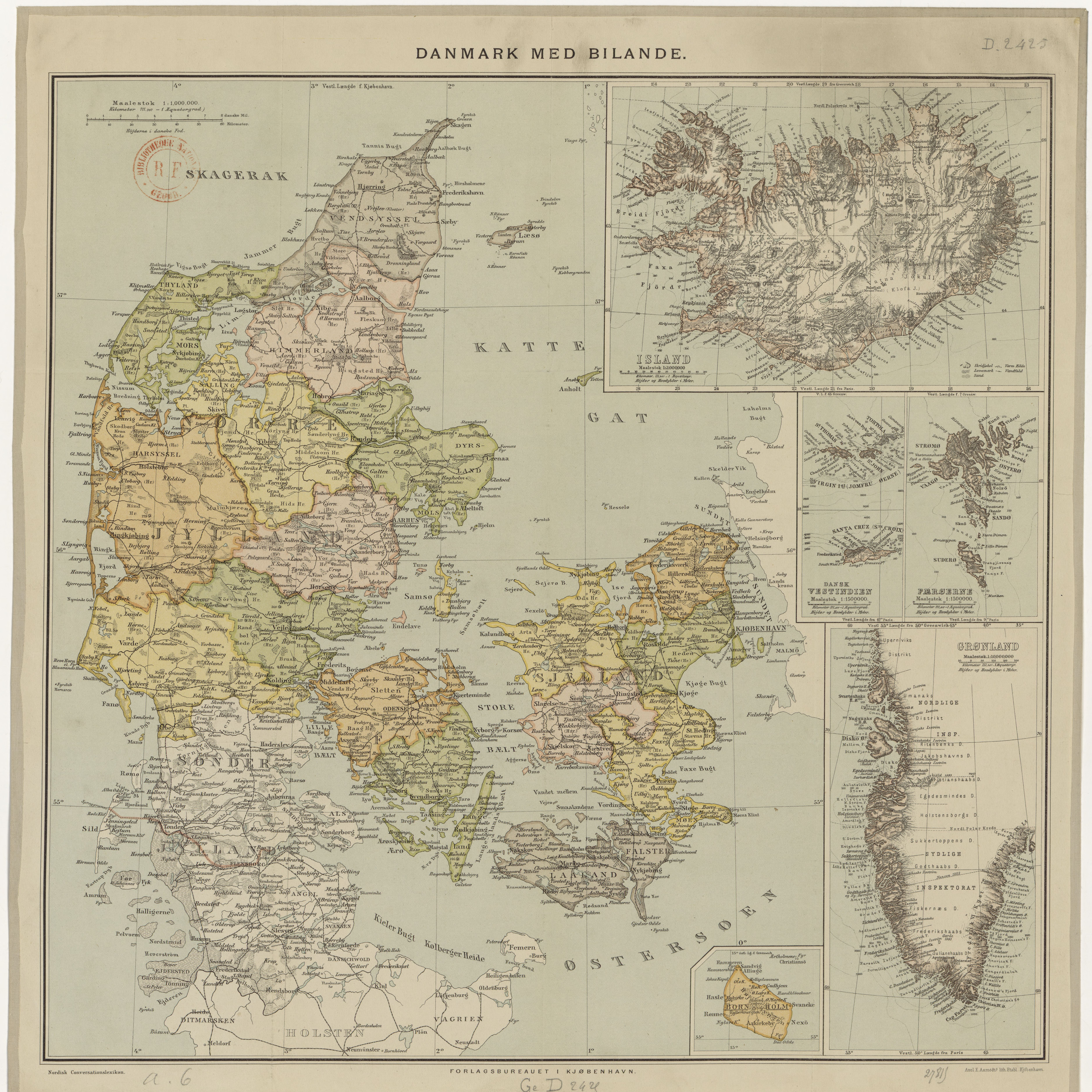 Map of Denmark, with administrative subdivisions, insets of dependencies: Faroe Islands, Iceland, Greenland, Danish Virgin Islands. Original size 44 by 45 cm. Publisher: Forlagsbureauet (Kjöbenhavn).